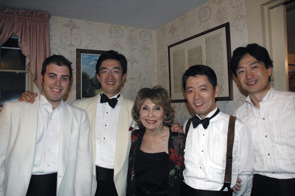 Ruth Laredo and the Shanghai Quartet. Nantucket Musical Arts Society, First Congregational Church, 62 Centre Street, Nantucket MA.